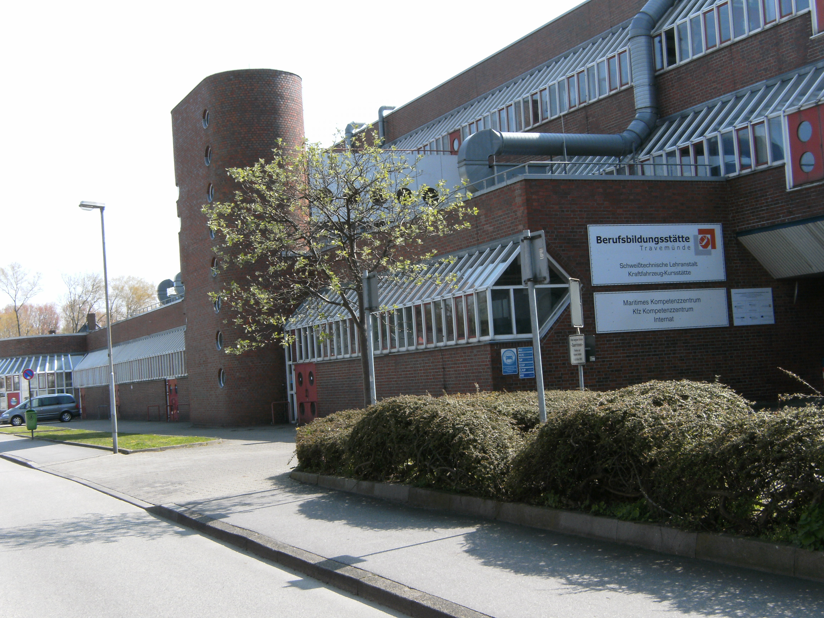 The Berufsbildungsstätte Travemünde (professional training school) is located on the Priwall, a part of Travemünde in the Wiekstraße.